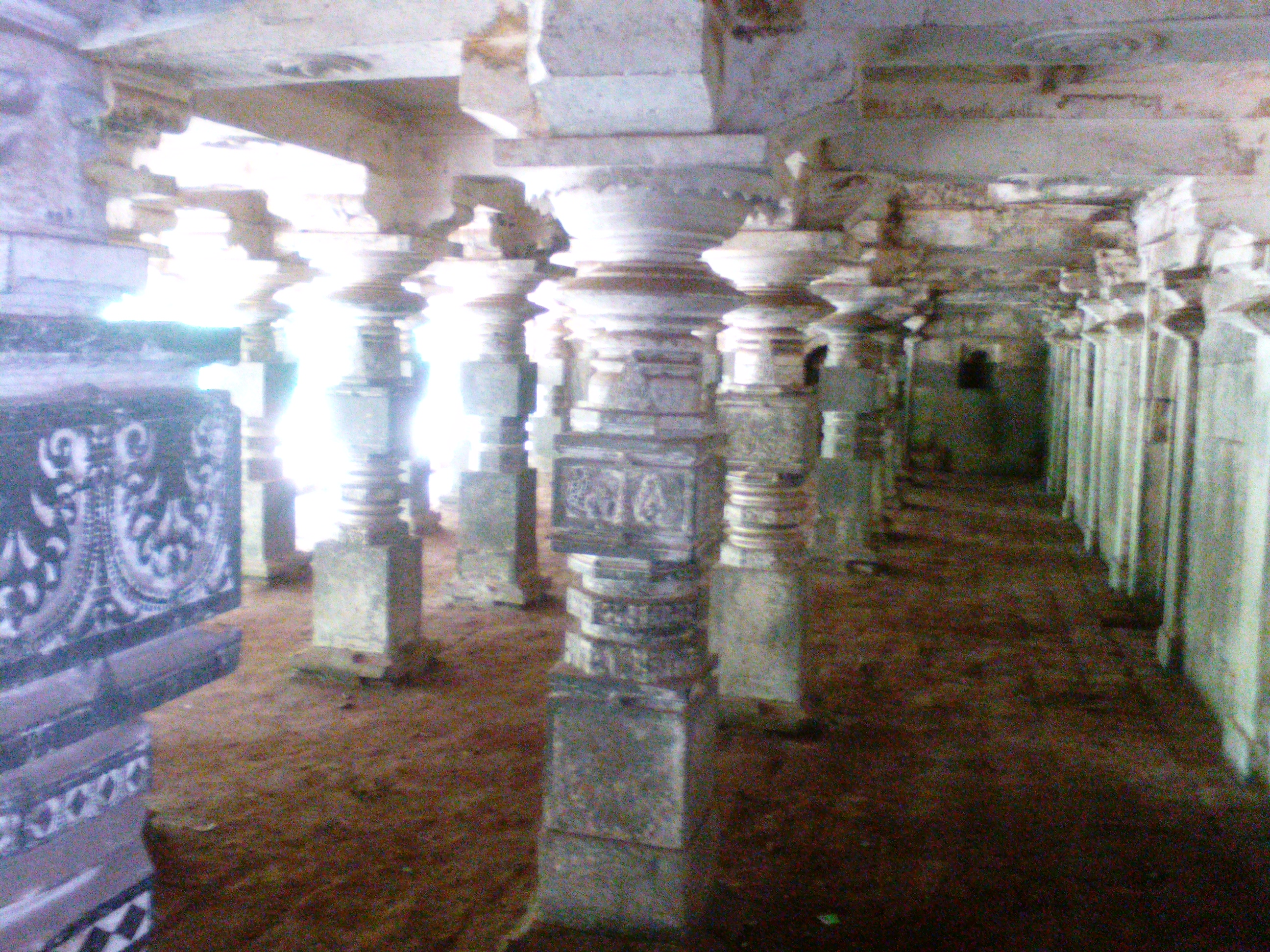 inside the stones complex in old fort of sholapur